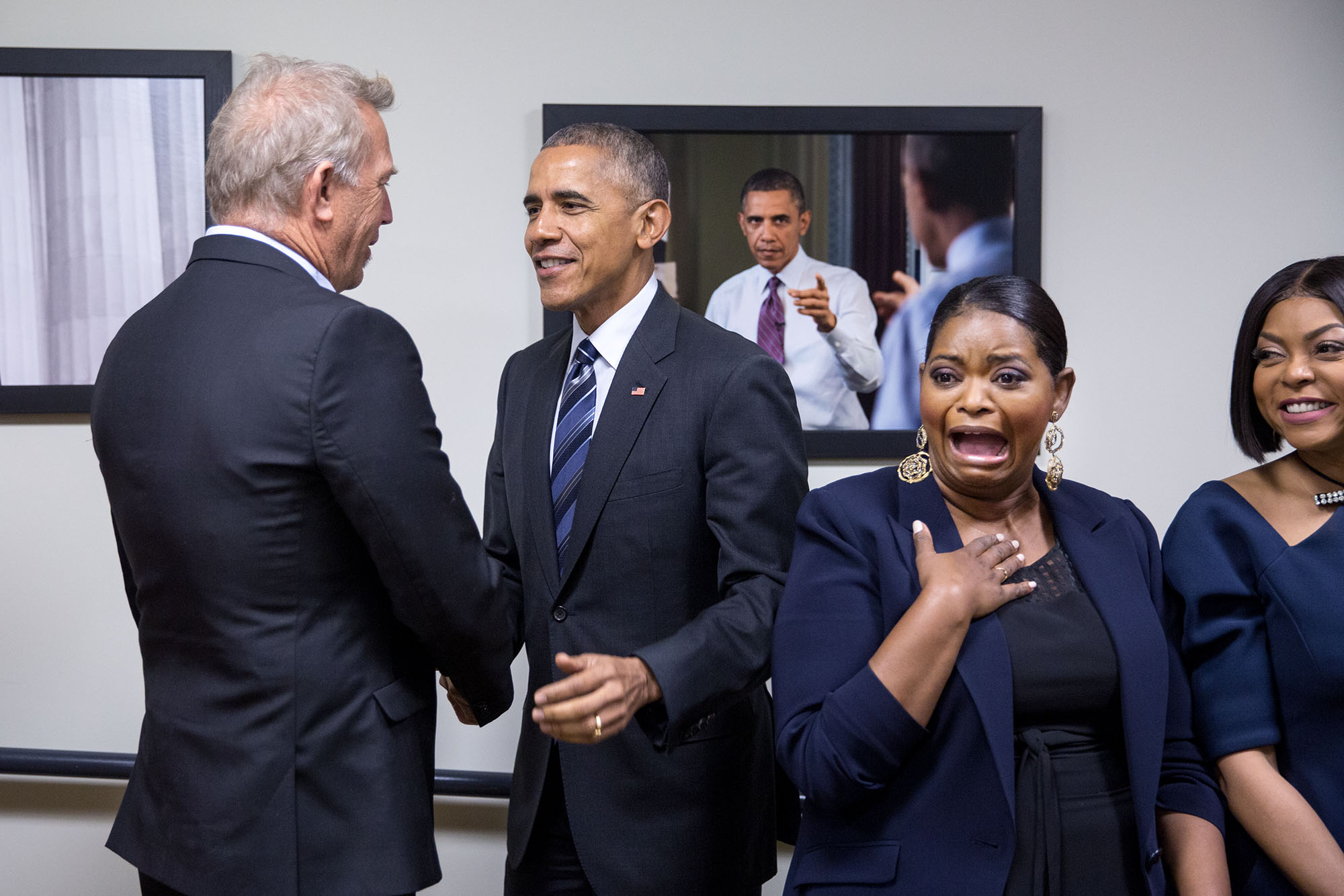 President Barack Obama drops by for a surprise visit as First Lady Michelle Obama greets participants prior to a screening of the film "Hidden Figures" in the Eisenhower Executive Office Building South Court Auditorium, Dec. 15, 2016. The event, featuring cast members Kevin Costner, Taraji P. Henson, Janelle Monáe, and Octavia Spencer, will highlight the stories of Americans who have made significant contributions in the history of space flight, space science, and innovation. Hidden Figures is a biographical film that tells the story of NASA pioneers Katherine Johnson, Dorothy Vaughn, and Mary Jackson, whose work enabled the first launches of Americans into space. (Official White House Photo by Pete Souza)